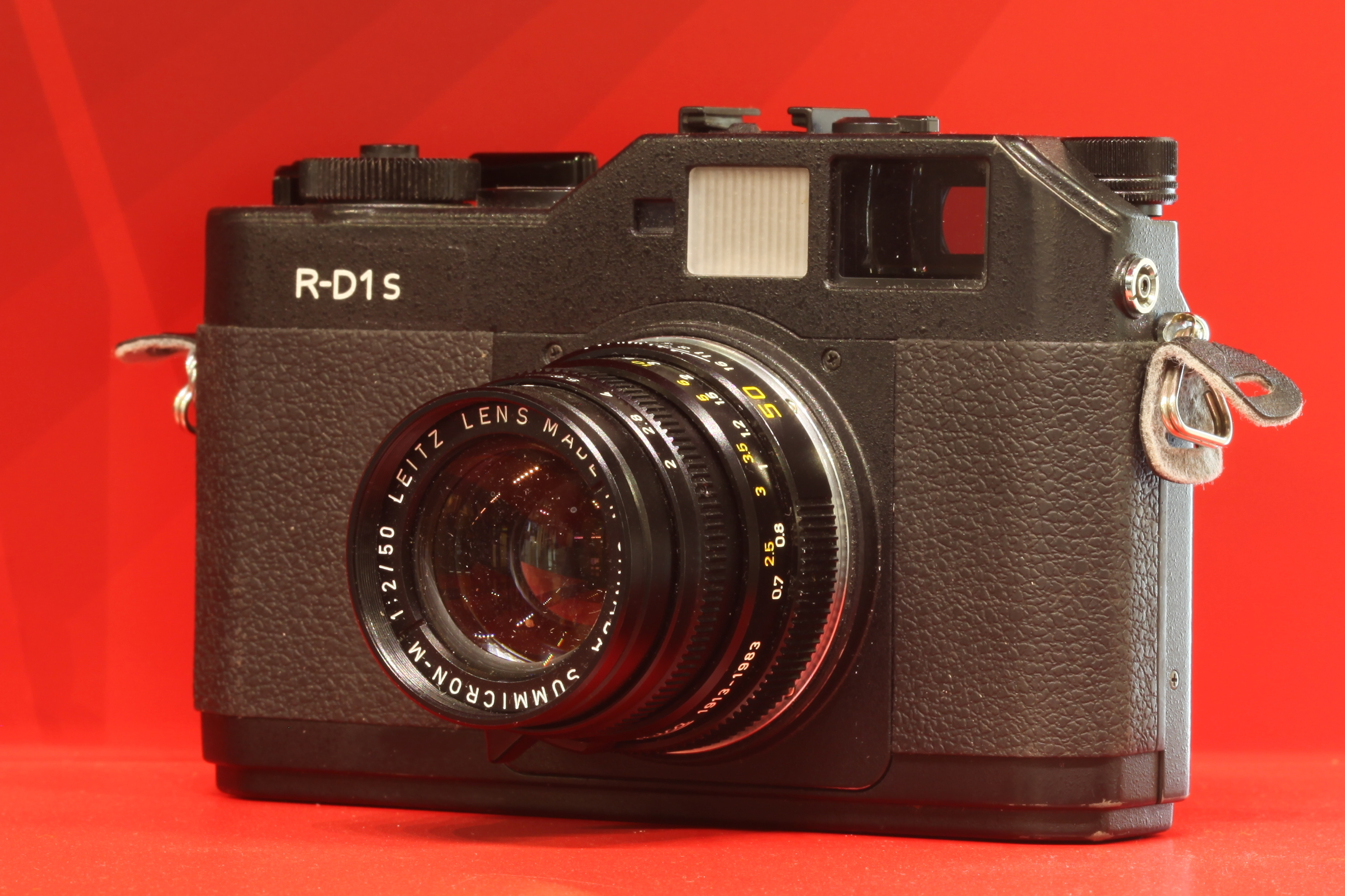 Epson R-D1